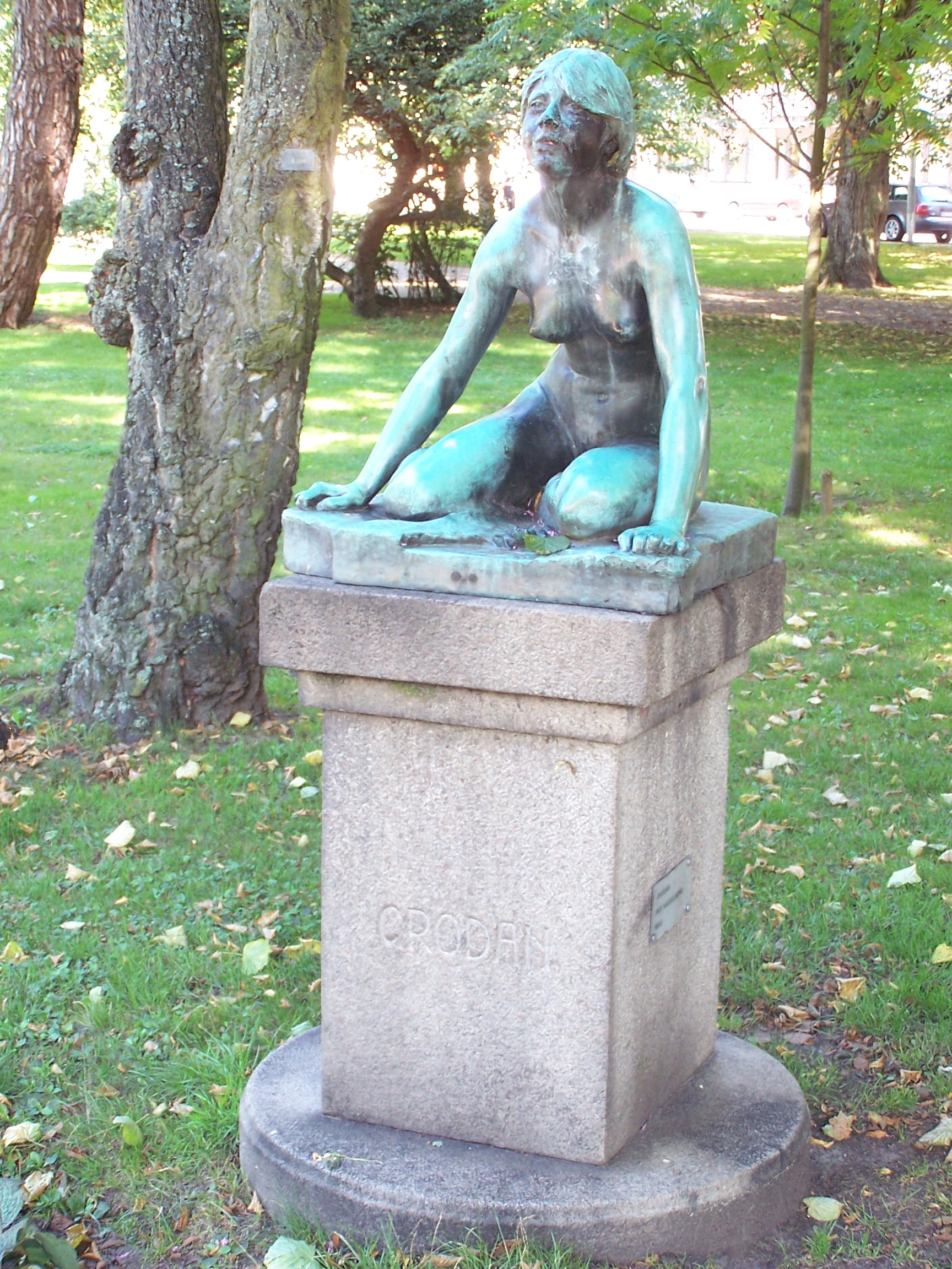 "Grodan" by Per Hasselberg, Hoglands Park, Karlskrona.